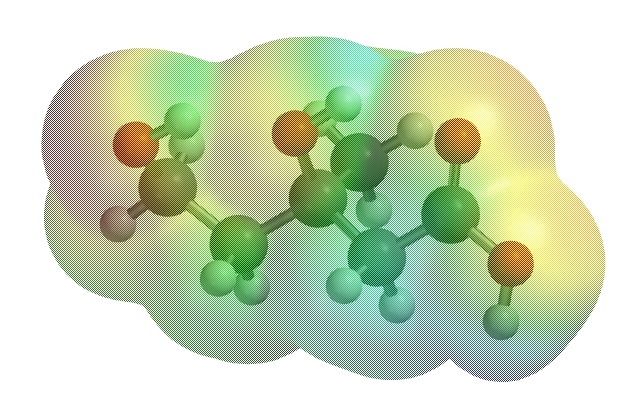 Mevalonsav_electron_map